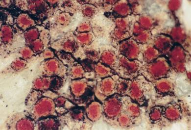 Caloplaca flavovirescens